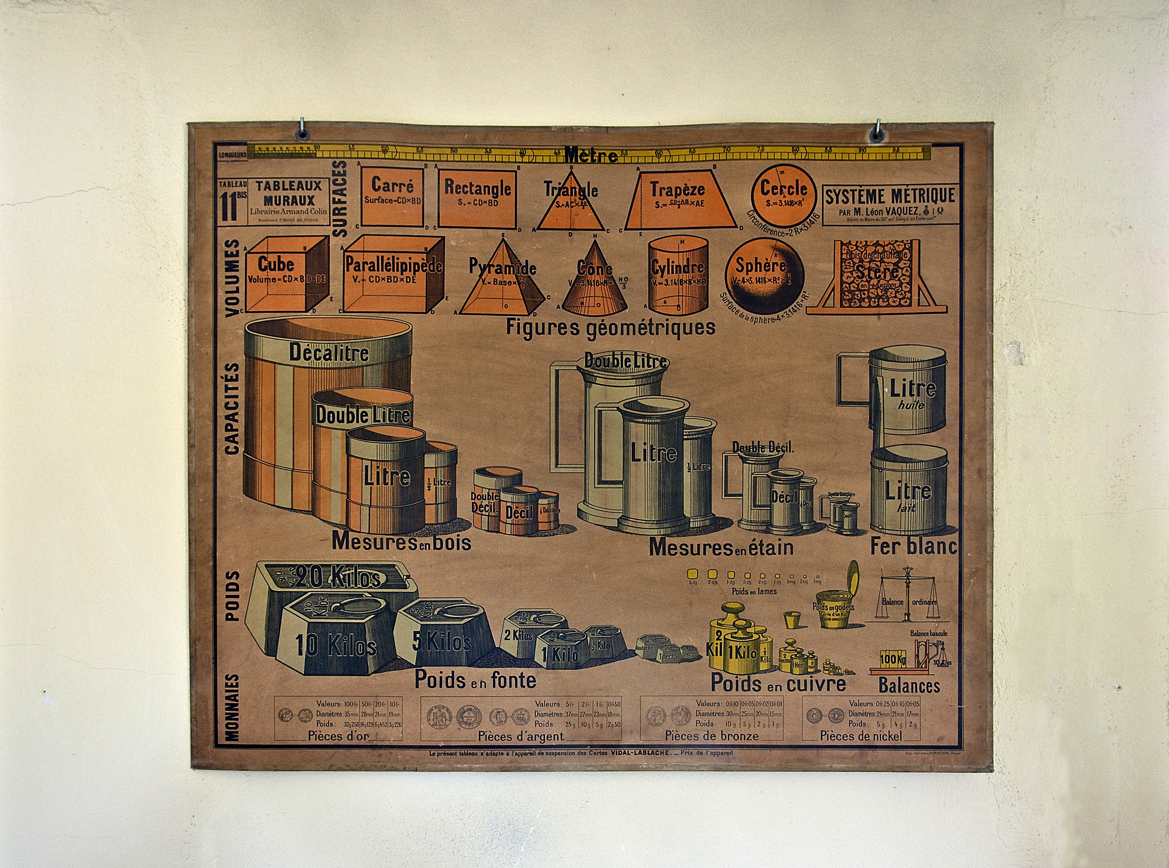 A vintage (end of 19th century) school display. Every school in France had a collection of this kind of posters, until the 1960's. Here, the metric.